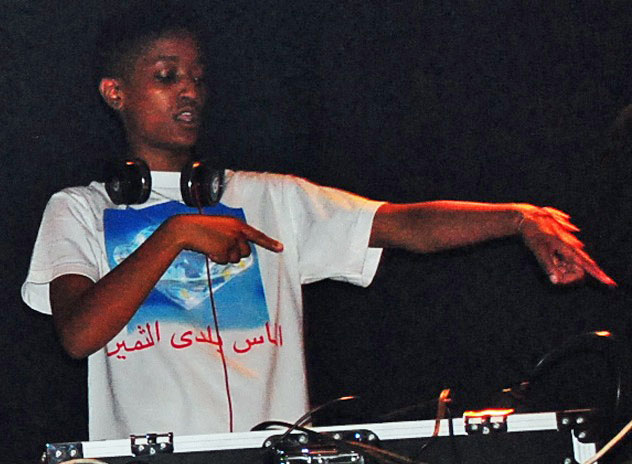 Syd the Kid live on The Come Up Show in Toronto, 2011